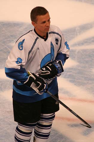 Igor Larionov playing a game in Stockholm during 2007.